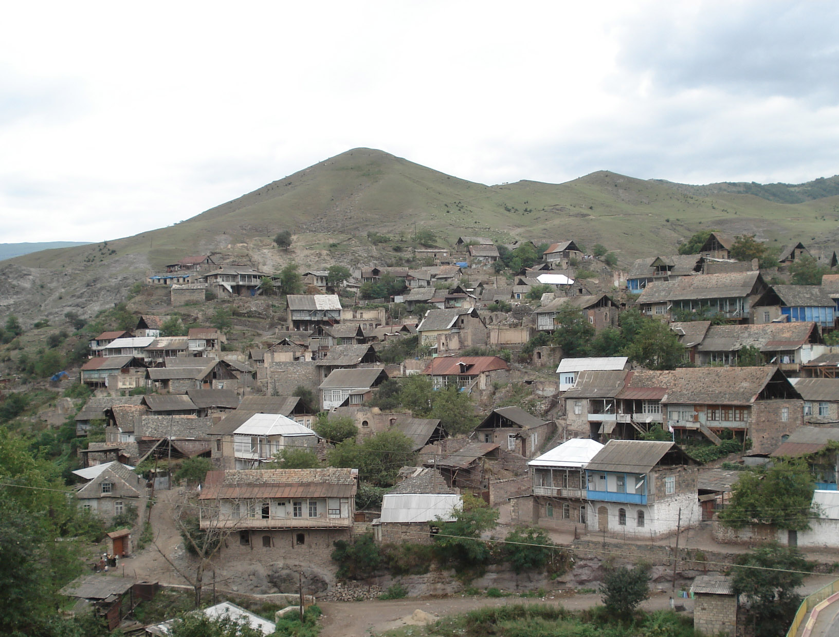 Houses in Daşkəsən